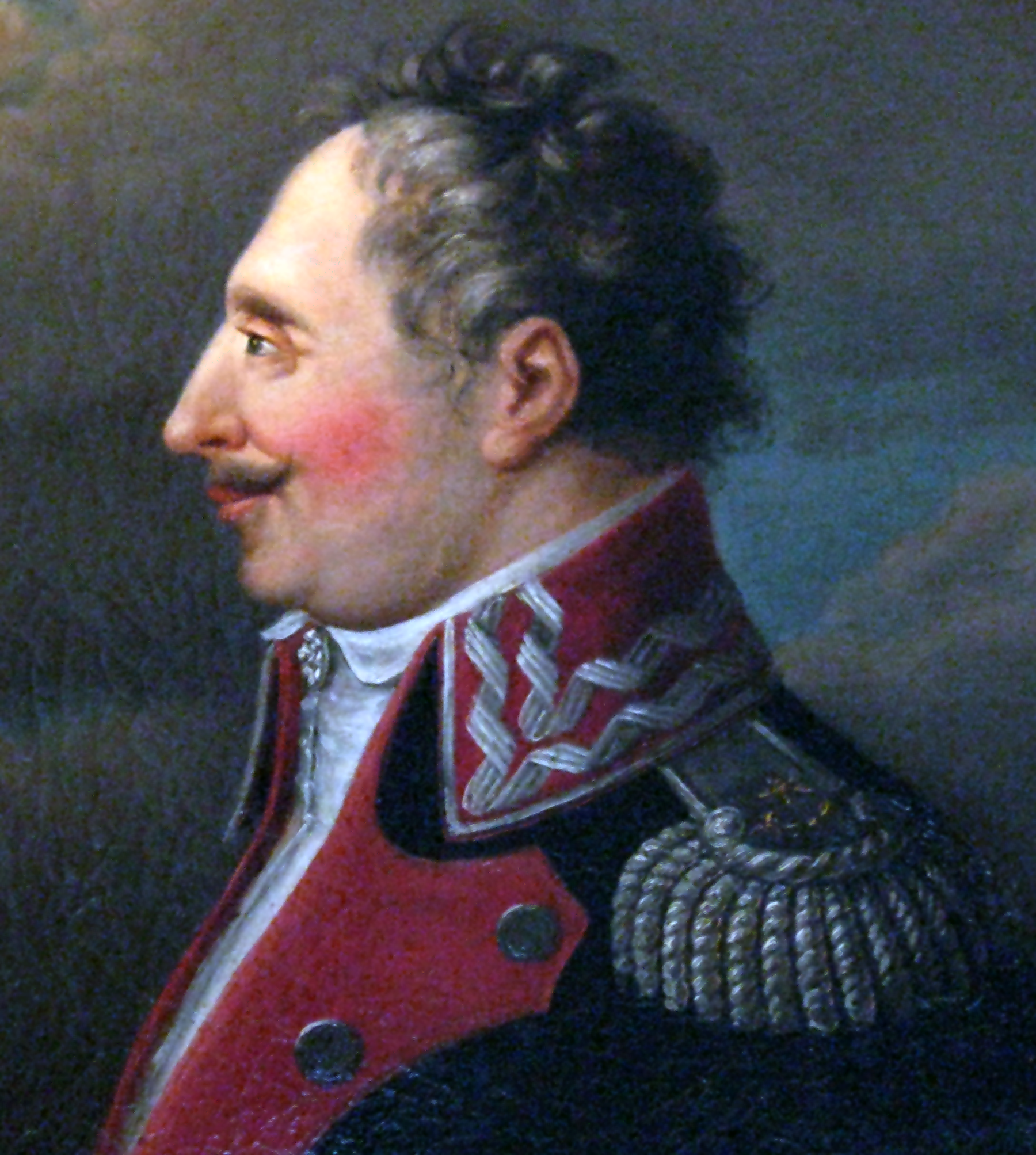 Antoni Madaliński (detail).